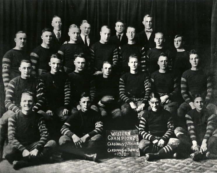 The Chicago Cardinals posing with the "Western Champions" plaque. Top row: Kantenberger , unknown, unknown, O'Brian (owner); 1st row: Smith, Currran, Knight, Gillies, Clark, Hallstrom, O'Conner; 2nd row: LaRoss, Carey, McInerney, (Paddy Driscoll with ball ) Florence, Brennan, Chapel; 3rd row: Whalen, Zola, Plunket, Sacks